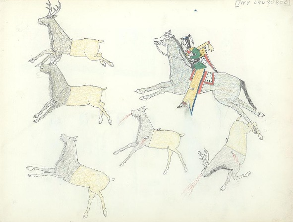 Anonymous ledger drawing of Kiowa Indian hunting elk on horseback.